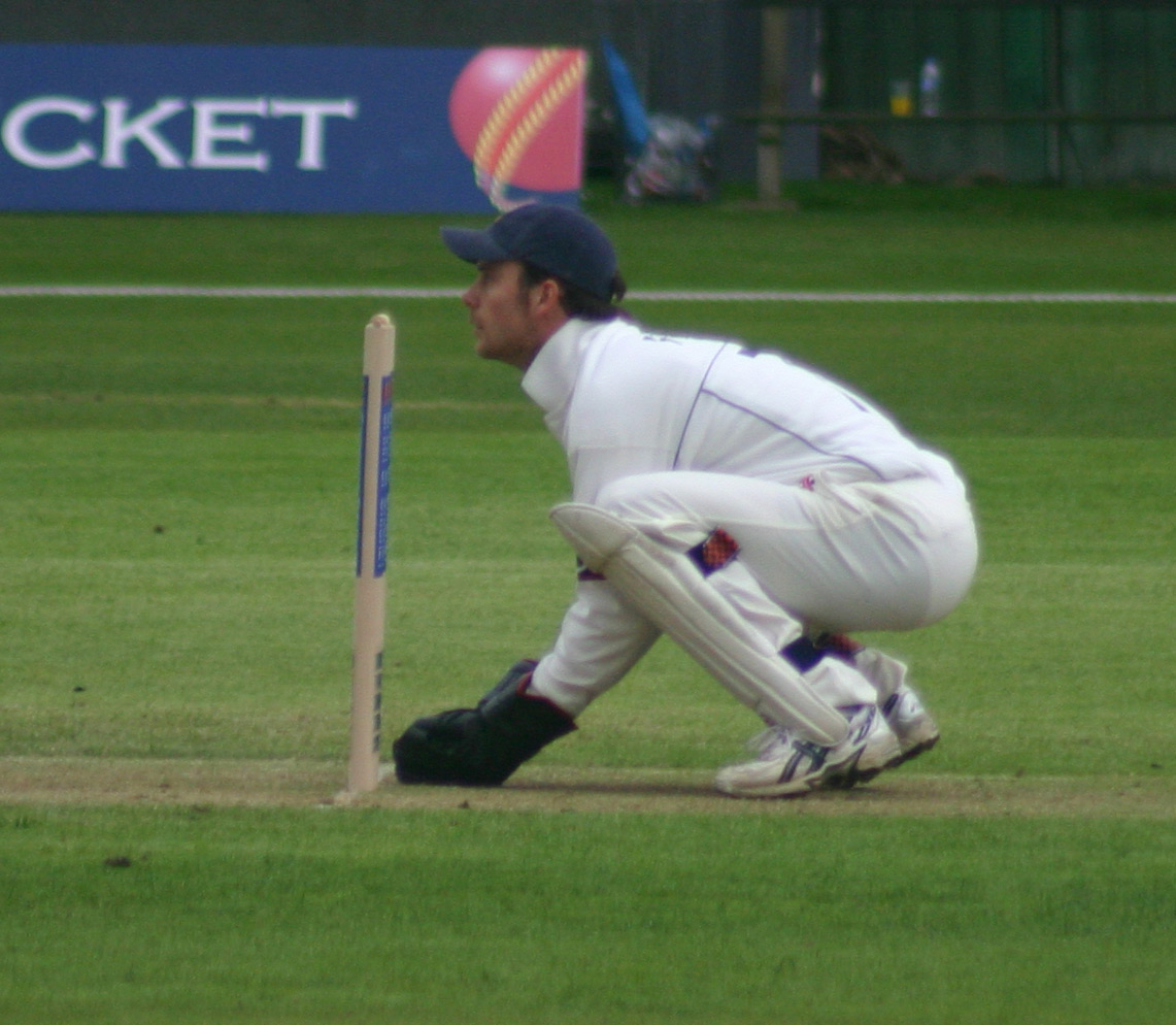 James Foster keeping wicket for Essex against Cambridge UCCE, at Fenner's cricket ground in Cambridge, 10 April, 2005. Photograph taken by Stephen Turner and released under the GFDL.